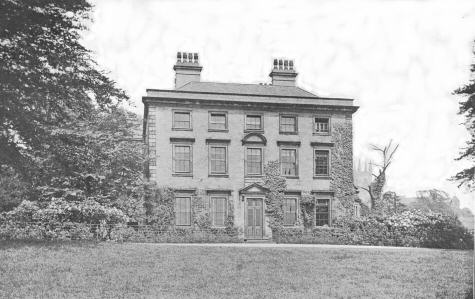 Blake Hall at Mirfield, where Anne Brontë had been employed as governess and which was suggested as the model for Grassdale Manor, Arthur Huntingdon's country seat, by Ellen Nussey (though it is not certain), a friend of Charlotte Brontë, to Edward Morison Wimperis, a commissioned artist for the Brontë sisters' novels in 1872.